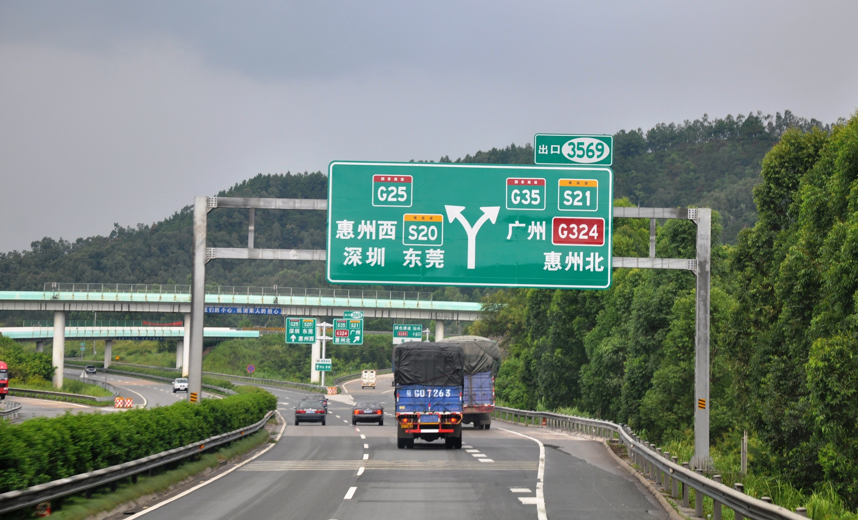 The New Sign In Xiaojinkou Interchange In Huihe Expwy